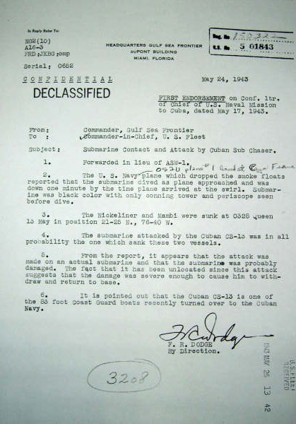 National Archives and Record Administration,(NARA) en Adelphi Road Washington Ship Yard Record Relating to U-boat Warfare, 1939-1945 Adelphy Road, College, Park, MD. USA